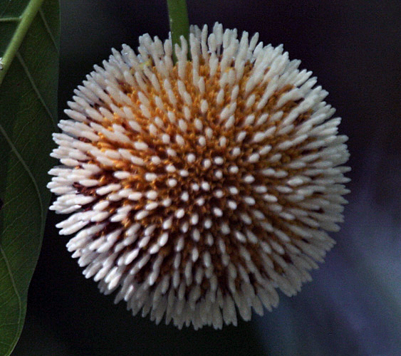 Kadamb Neolamarckia cadamba in Kolkata, West Bengal, India.